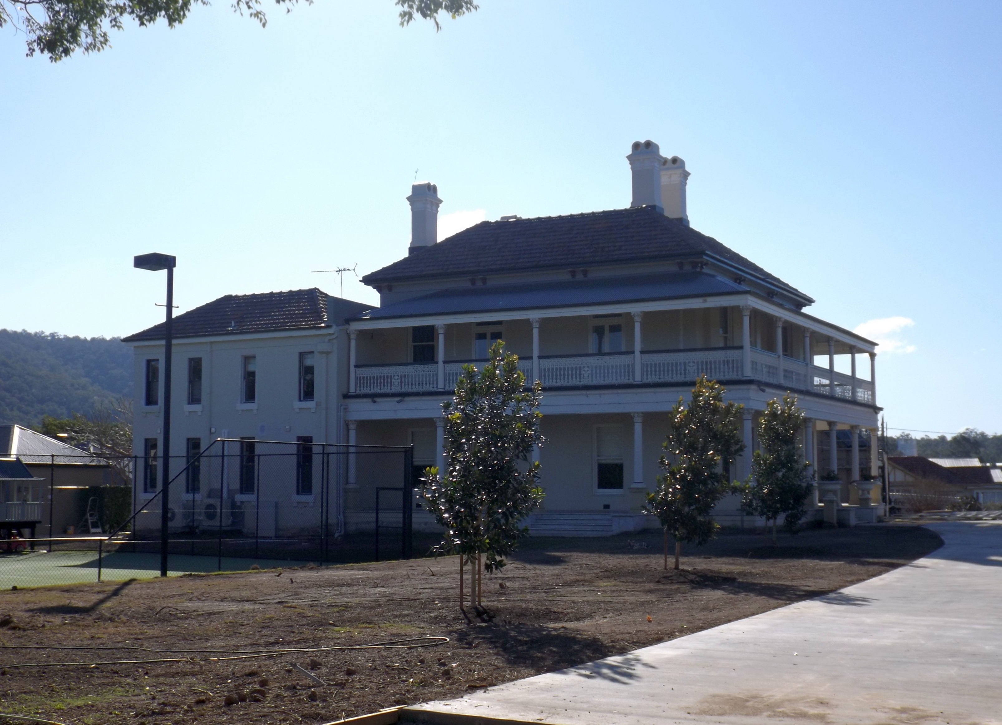 Photo of Glen Lyon residence at Ashgrove, Brisbane, Queensland, Australia. Gardens were undergoing maintenance at the time.